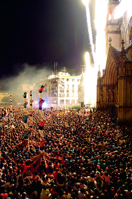 Entrada de Sant Fèlix, 30 d'Agost